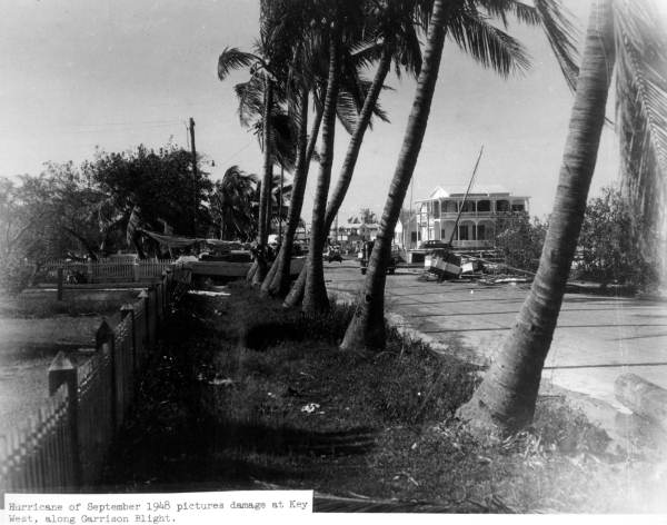 Damage from a hurricane in September 1948 along a street in Key West, Florida